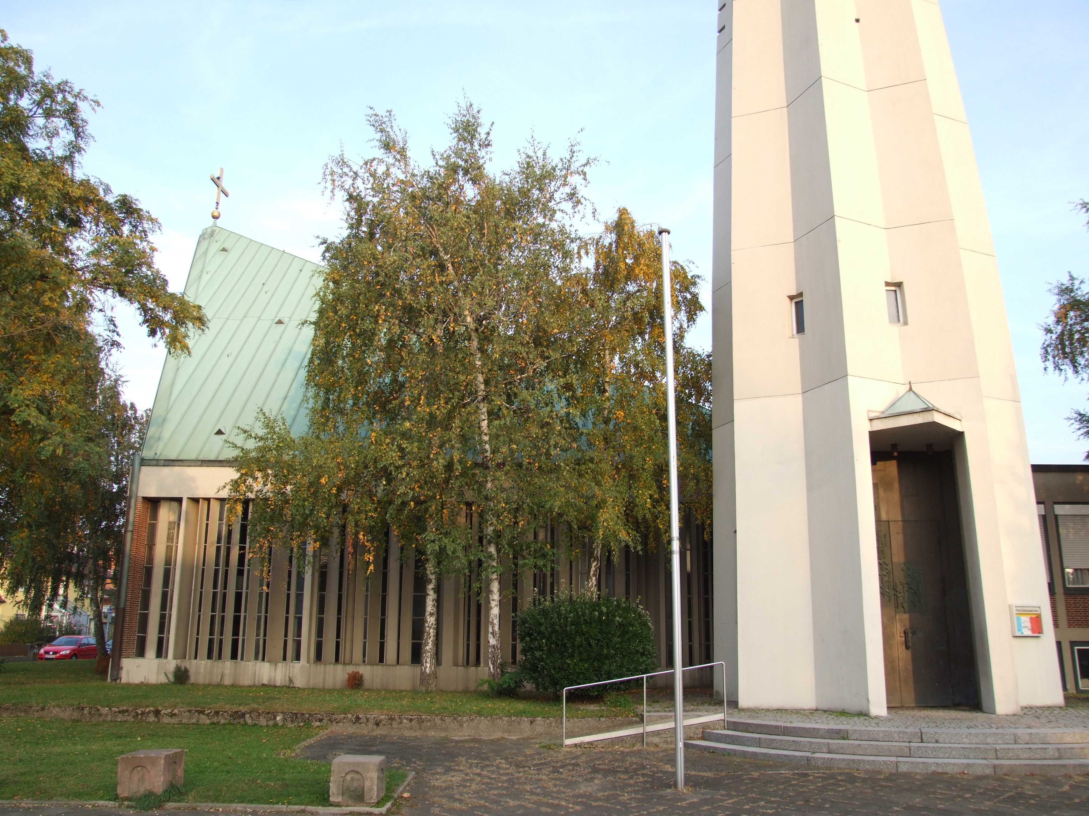 westside of Christuskirche (Speyer)